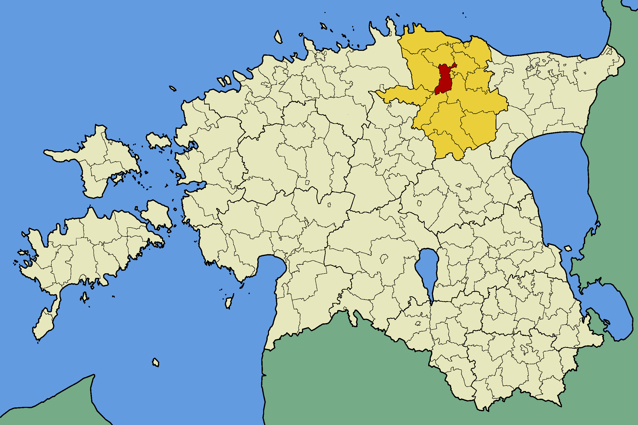 Map of Estonia with borders of municipalities (parishes). Lääne-Viru county and Rakvere municipality emphasized.